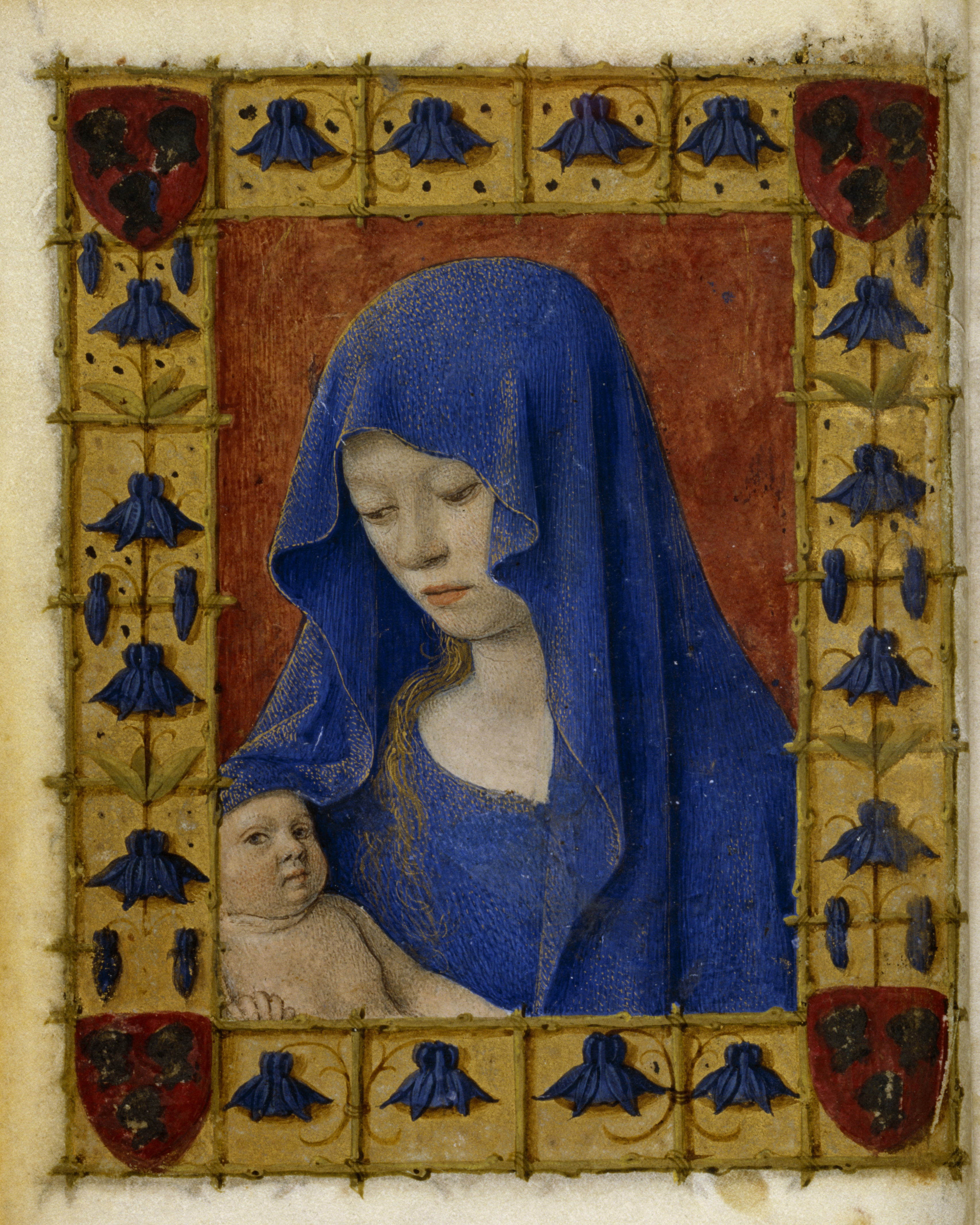 Folio 001v from the Book of Hours of Simon de Varie - KB 74 G37a Miniature on the folio 001v Mary holding the Christ-child